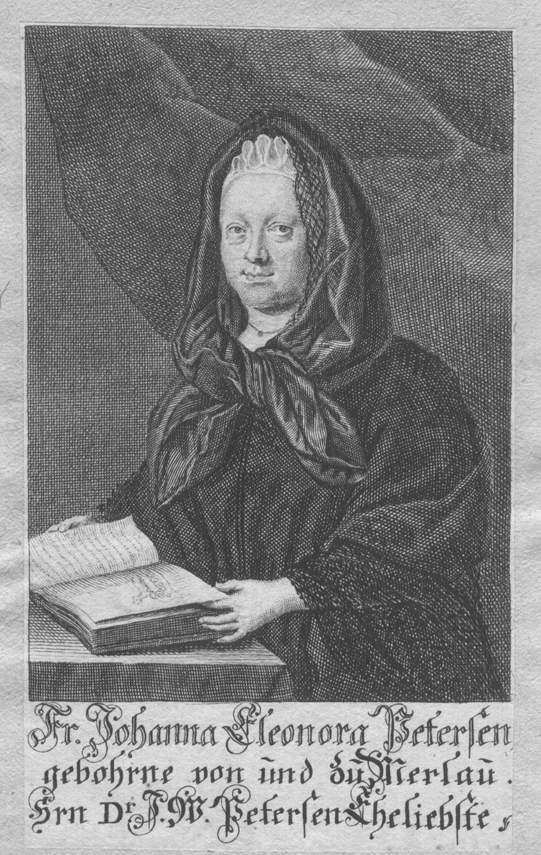 Engraved portrait of Johanna Eleonora Petersen